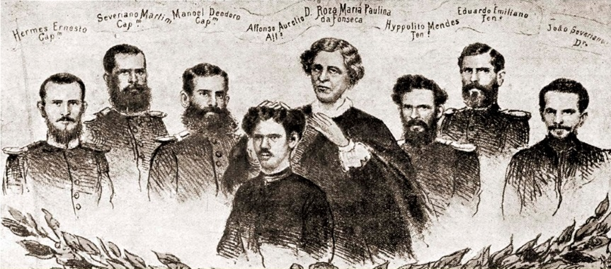 Illustration of the Fonseca family, in 1865